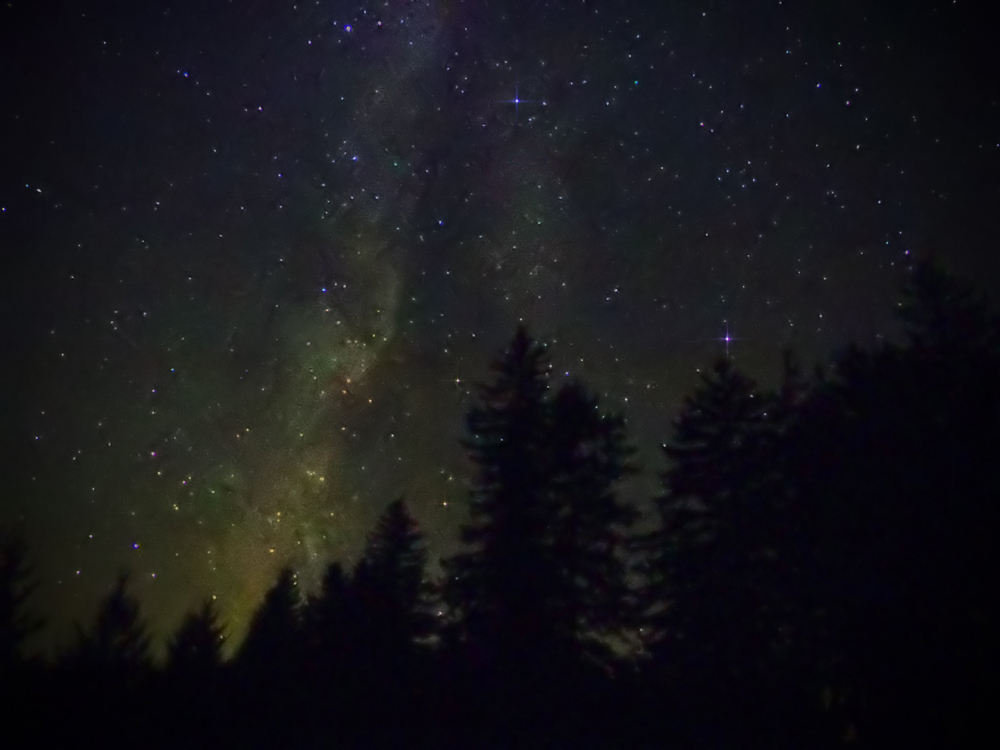 Night sky (stars and the Milky Way), Cherry Springs State Park, Potter County.